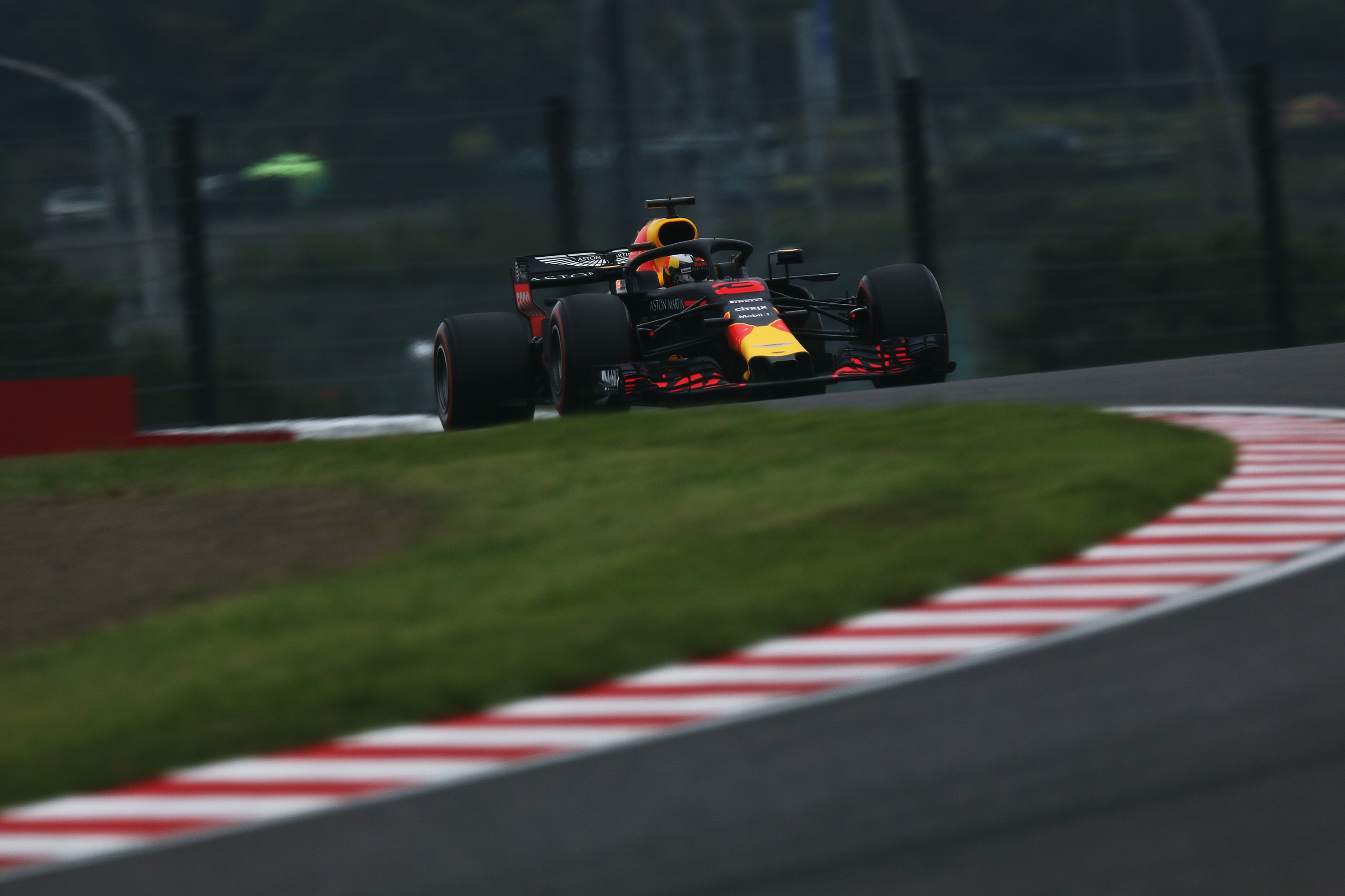 2018 Japanese Grand Prix.